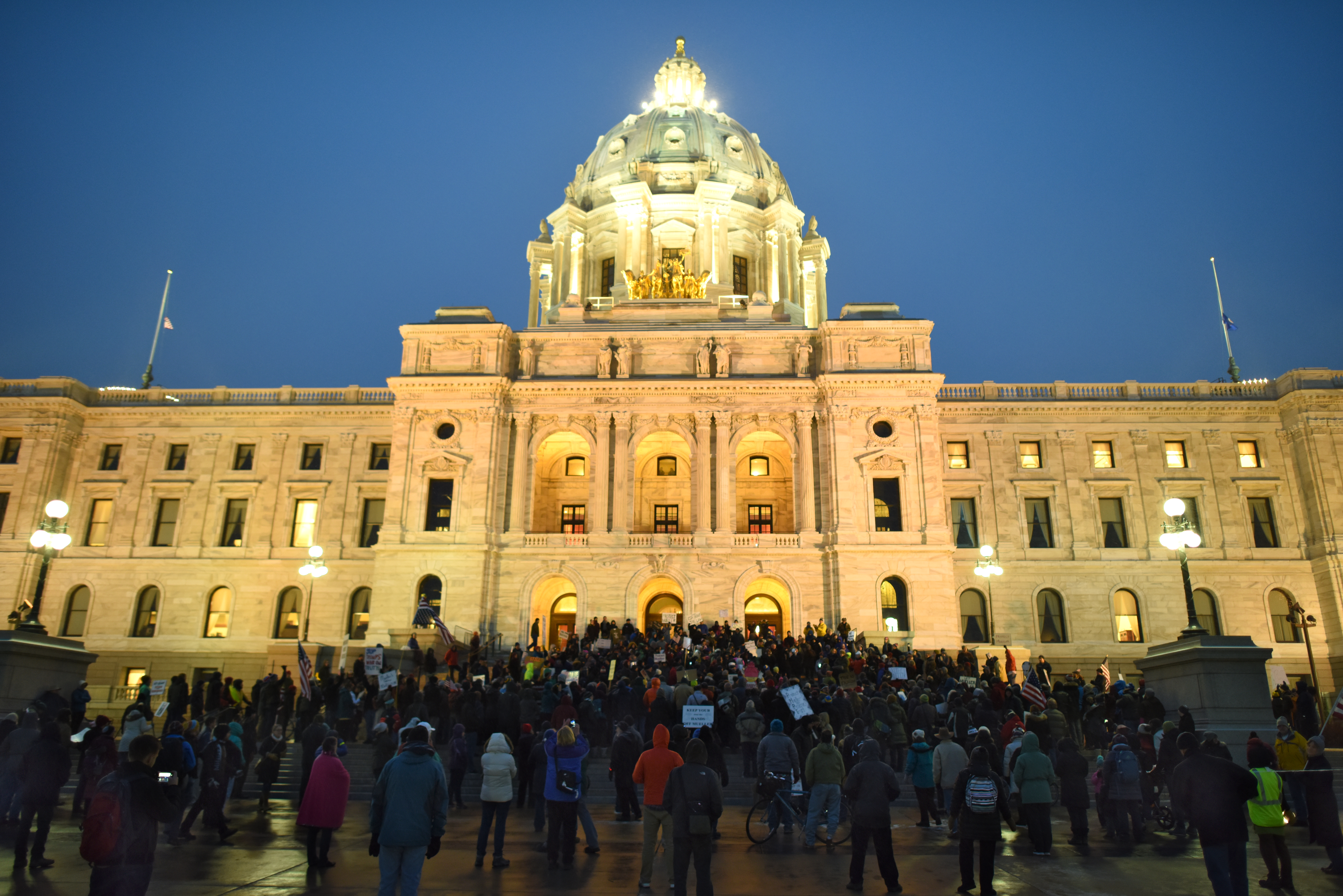 St. Paul, Minnesota November 8, 2018 About 800 people gathered on the steps of the Minnesota capitol building to protest the ouster of U.S. Attorney General Jeff Sessions. Republican President Donald Trump asked for Session's resignation, and then installed his own Attorney General, Matthew Whitaker. Whitaker now overseas special prosecutor Robert Mueller who is investigating Russia interference in the election of Donald Trump in 2016. 2018-11-08 This is licensed under the Creative Commons Attribution License. Give attribution to: Fibonacci Blue